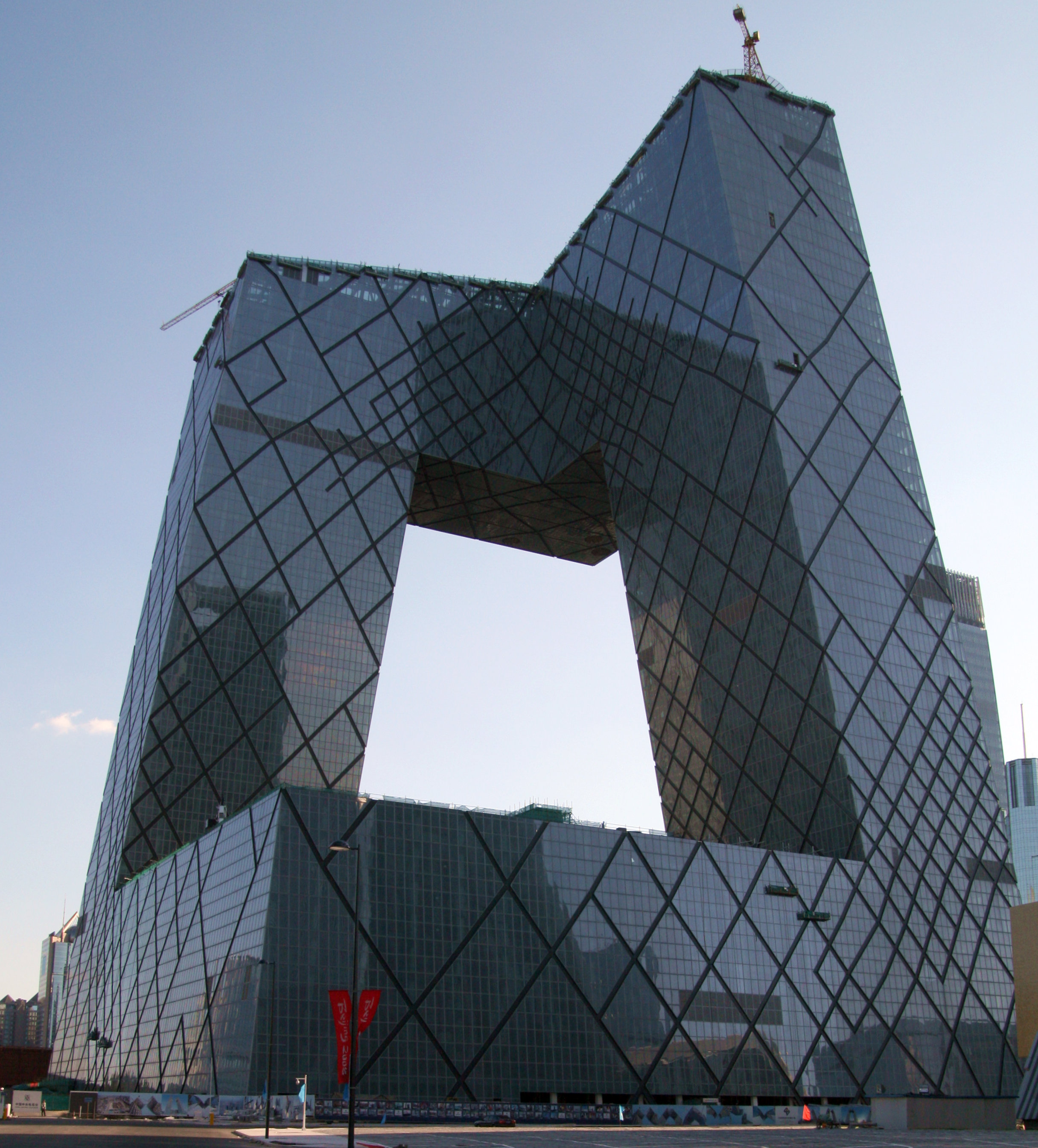 Beijing's CCTV Building